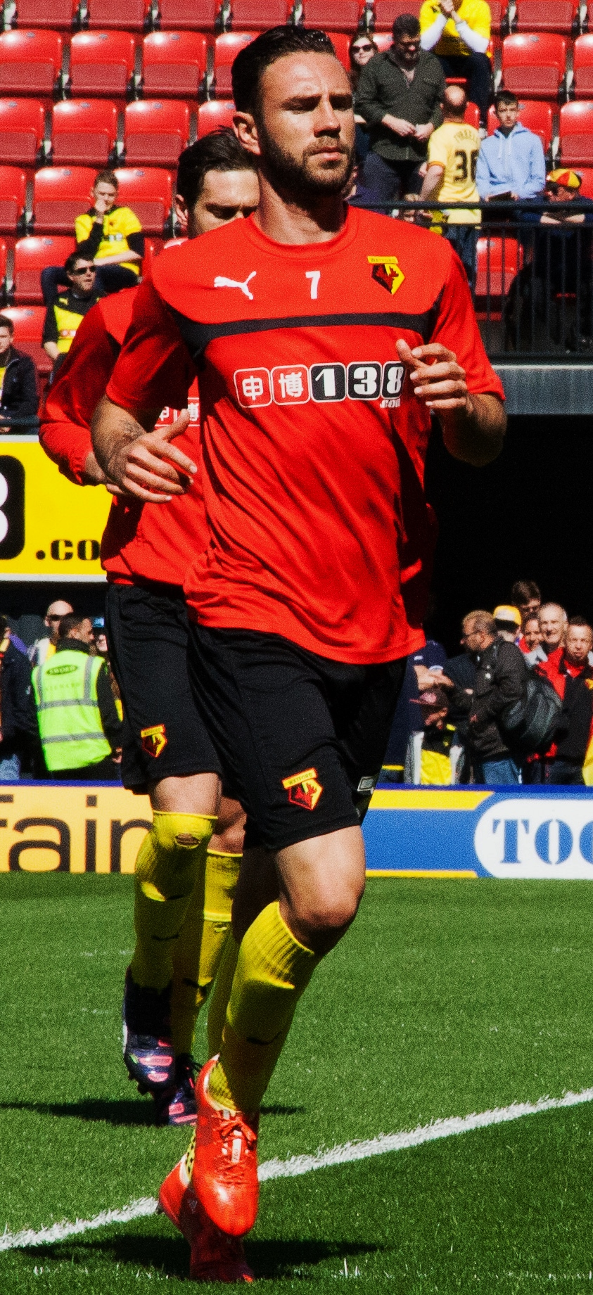 Miguel Layún